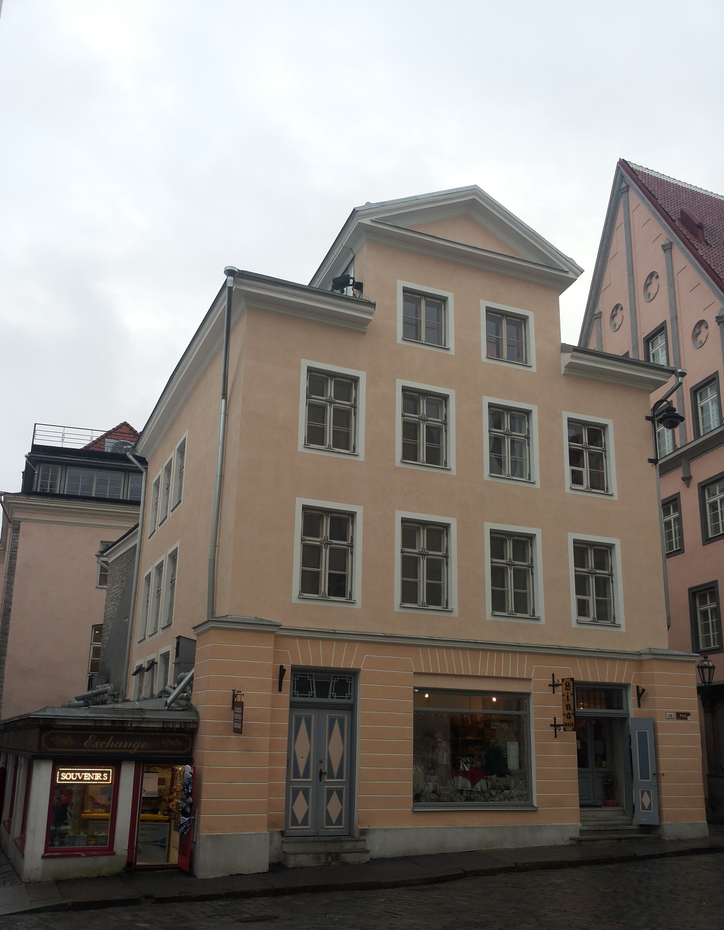 Building in Tallinn Old Town on Pikk street